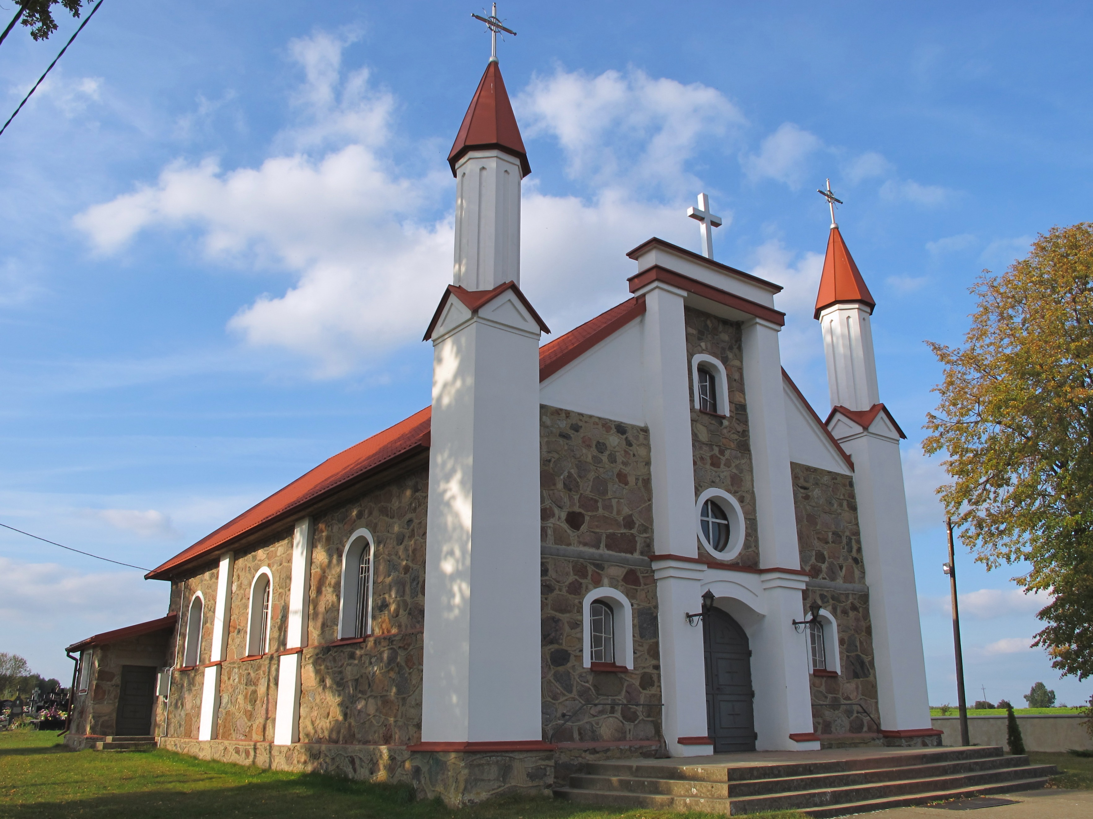 Our Lady of Consolation church in Jatwieź Duża, gmina Suchowola, podlaskie, Poland